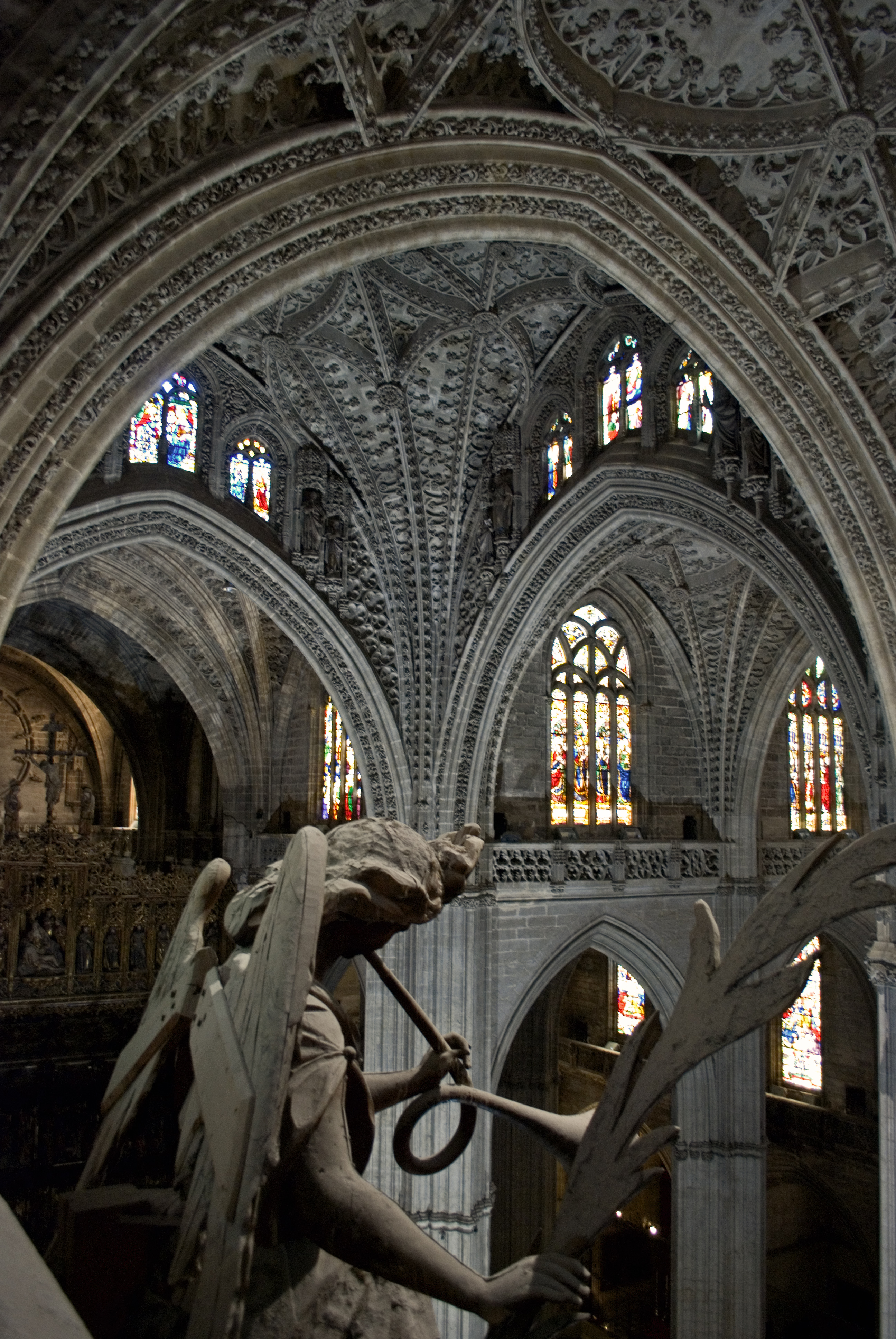 View of the transept vault of Seville Cathedral